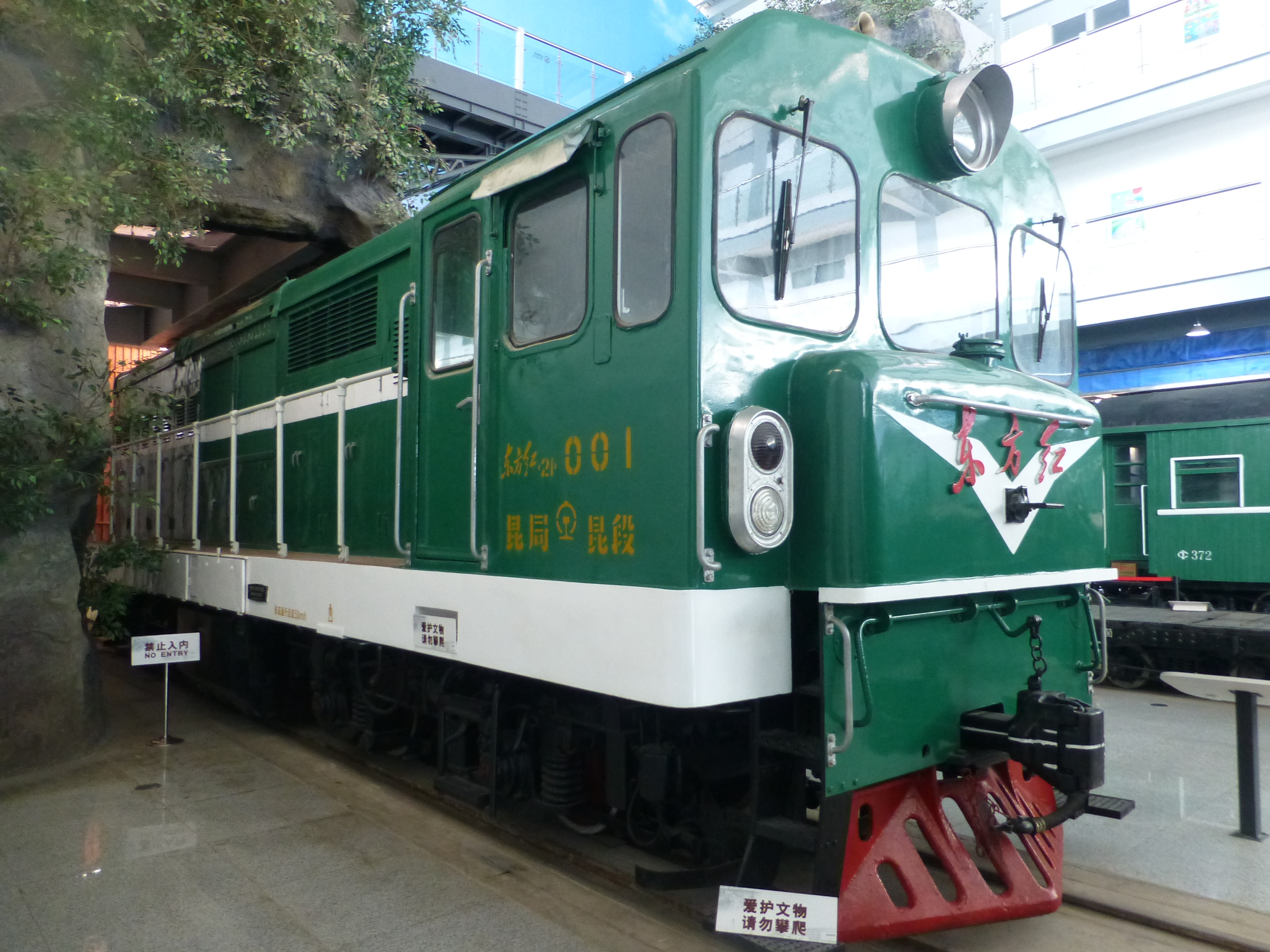 Rolling stock on display in the Yunnan Railway Museum (Kunming North Railway Station)